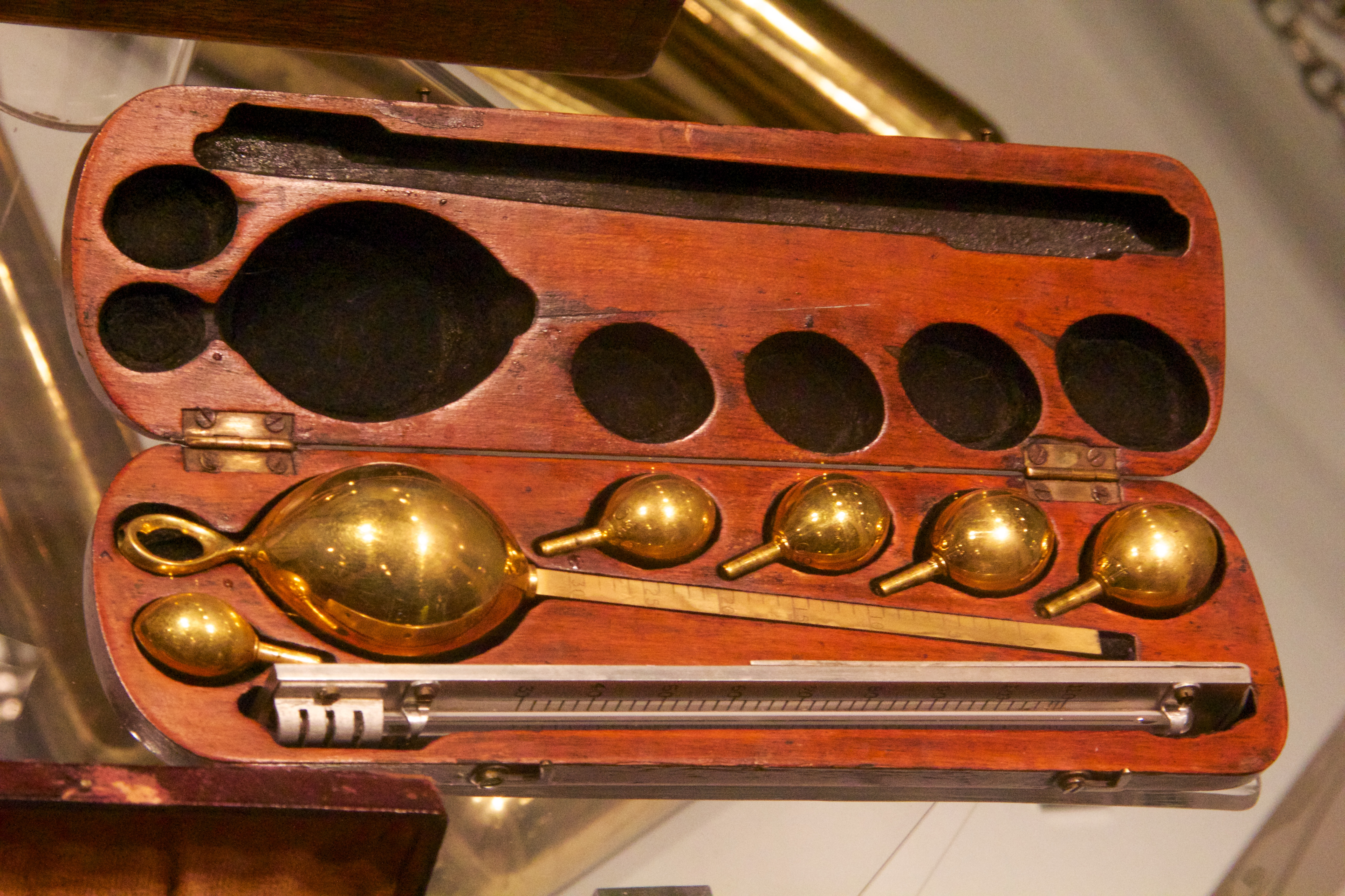 Saccharometer. Dring & Fage, London. Mid 20th century. CENM 2001.337.1-4. On display at the Merseyside Maritime Museum.